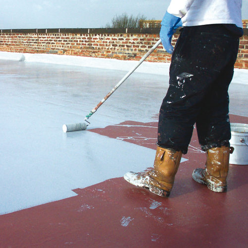 A roofing contractor carries out a liquid roofing installation.